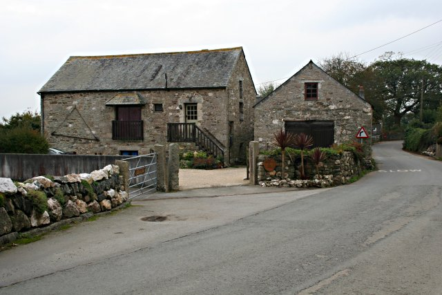 Converted Farm Buildings This is in the hamlet of Maders. According to the wooden sign on the wall, these are The Granary and The Barn, presumably modern names which reflect their original use.